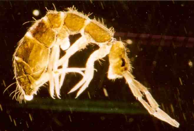 Detailed image of Isotoma anglicana Lubbock, 1873 (Collembola, Isotomidae), 3.5mm